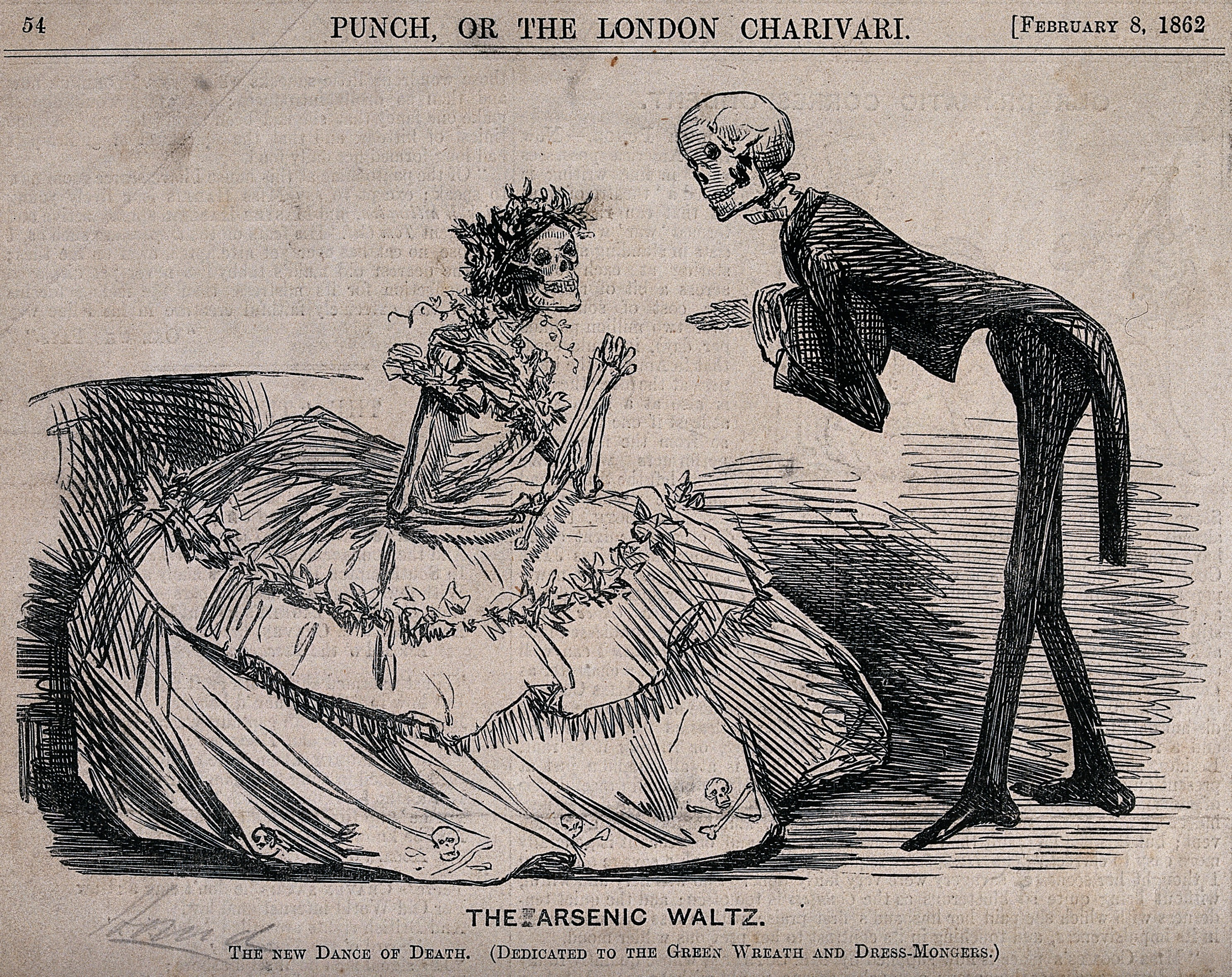 Two skeletons dressed as lady and gentleman. Etching, 1862. Lettering: "Punch, or the London Charivari" "The Arsenic Waltz" "The new Dance of Death. (Dedicated to the Green Wreath and Dress-Mongers.)" Iconographic Collections